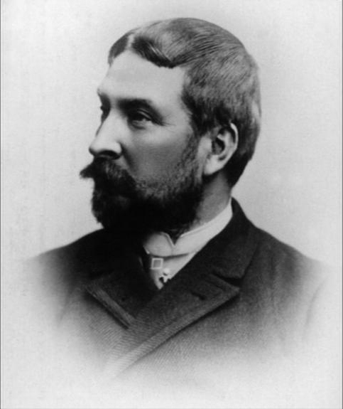 Photograph of the Finnish writer Rafael Hertzberg (1845–1896).